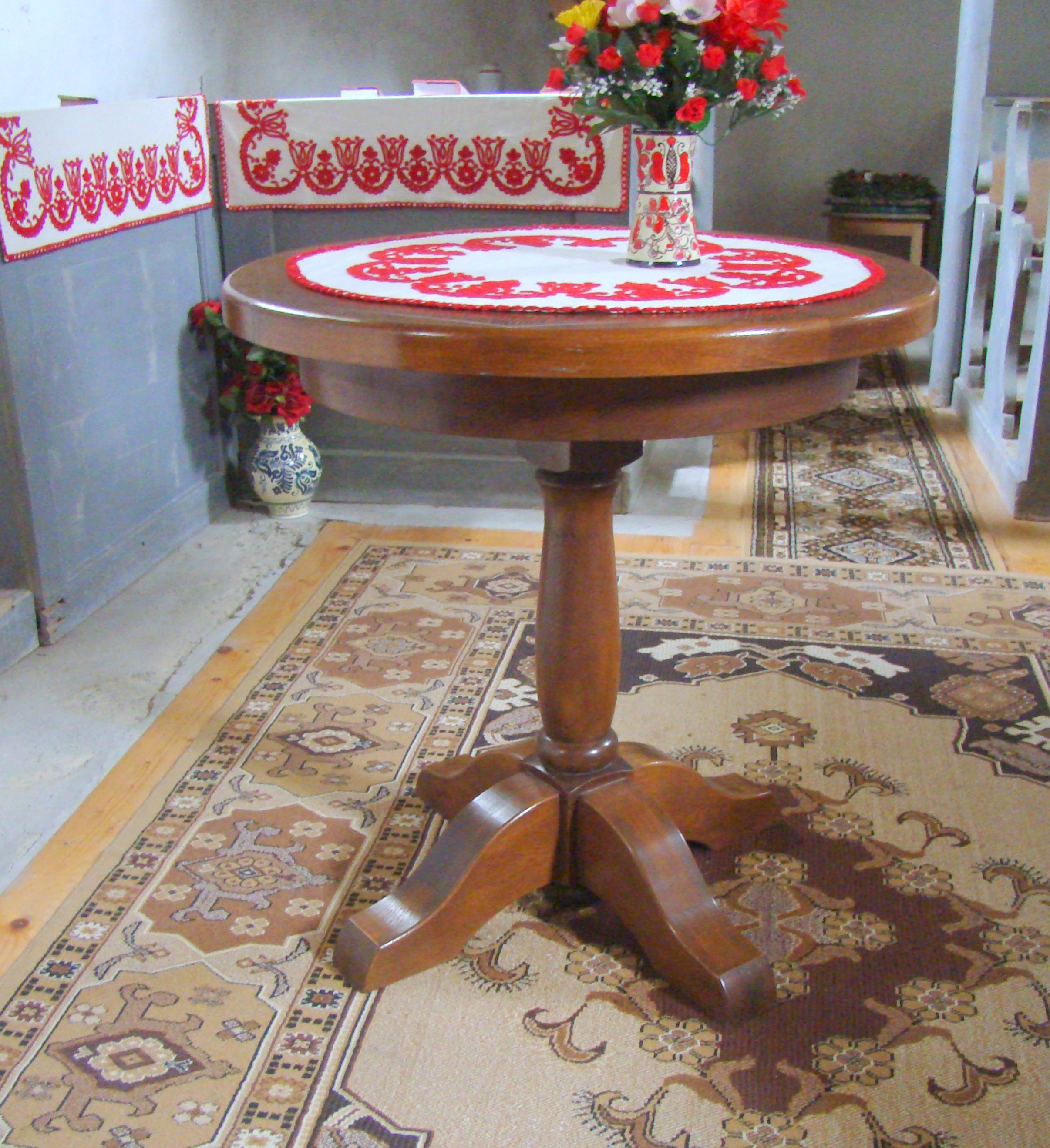 Reformed church in Satu Mic, Harghita county, Romania